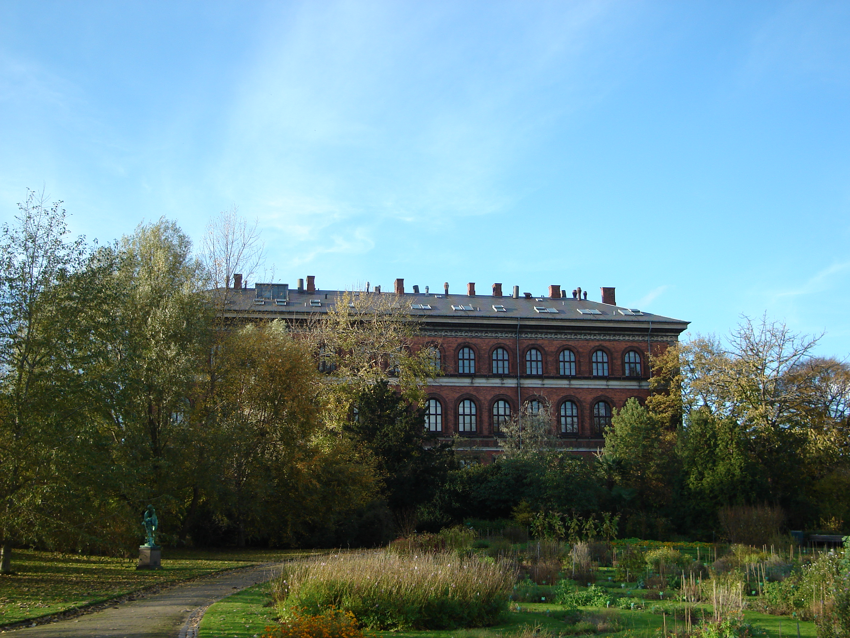 The former Botanisk Laboratorium at 140 Gothersgade seen from Copenhagen Botanical Garden